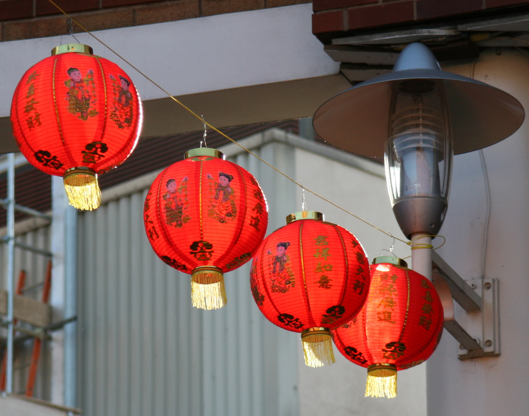 Apparantly the Chinese New Year isn't too far off.